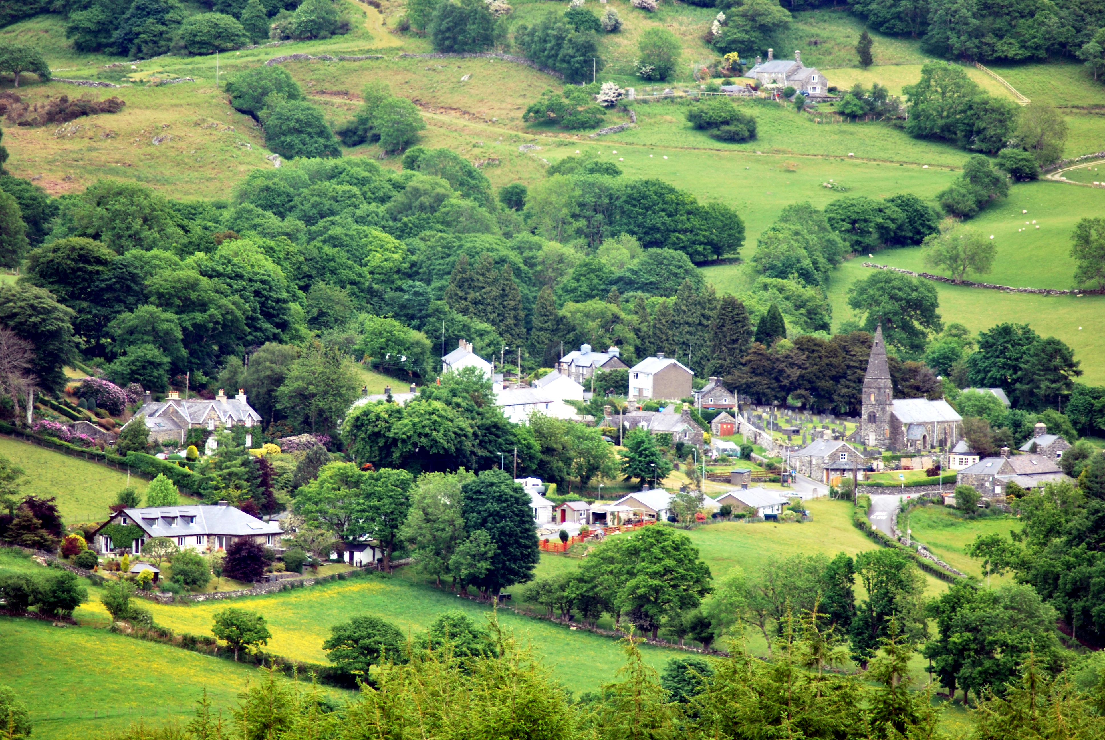 A view of Llanfachreth from the south